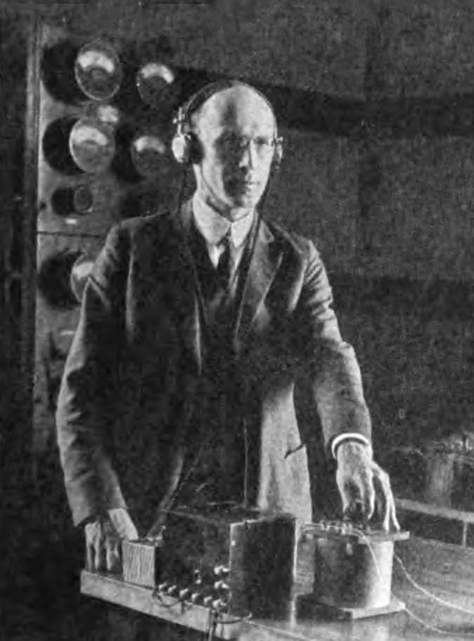 American electrical engineer John Milton Miller experimenting with a radio receiver at the US National Bureau of Standards around 1922. He is known for discovering the Miller effect and for advances in crystal oscillators.